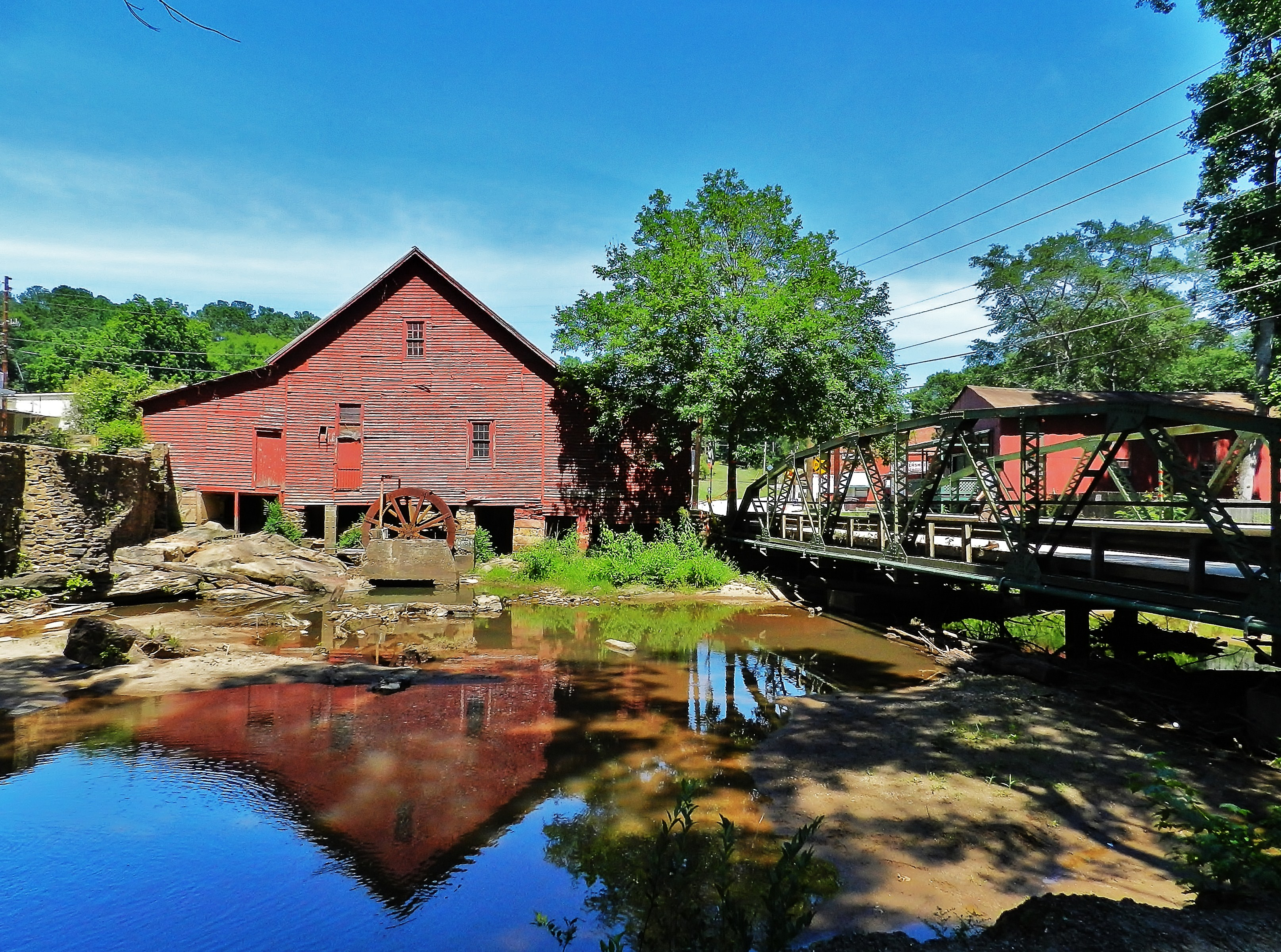 Rex Mill, Rex Rd. Rex